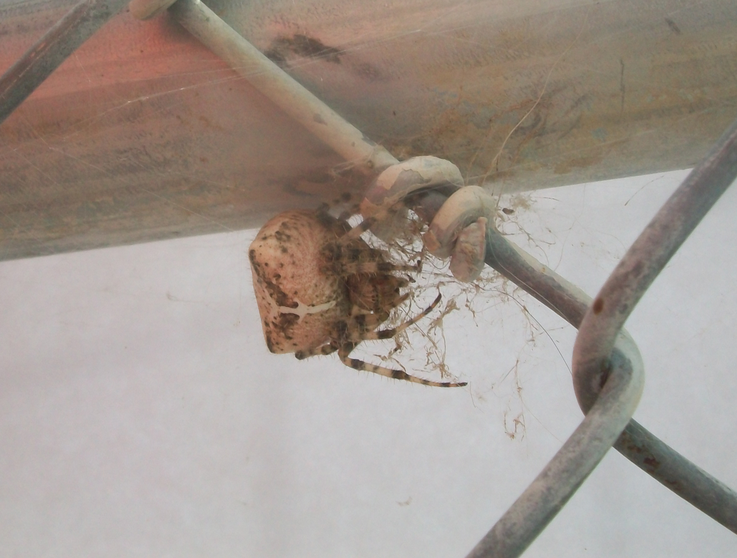 Cat-faced spider on a chain link fence with web.